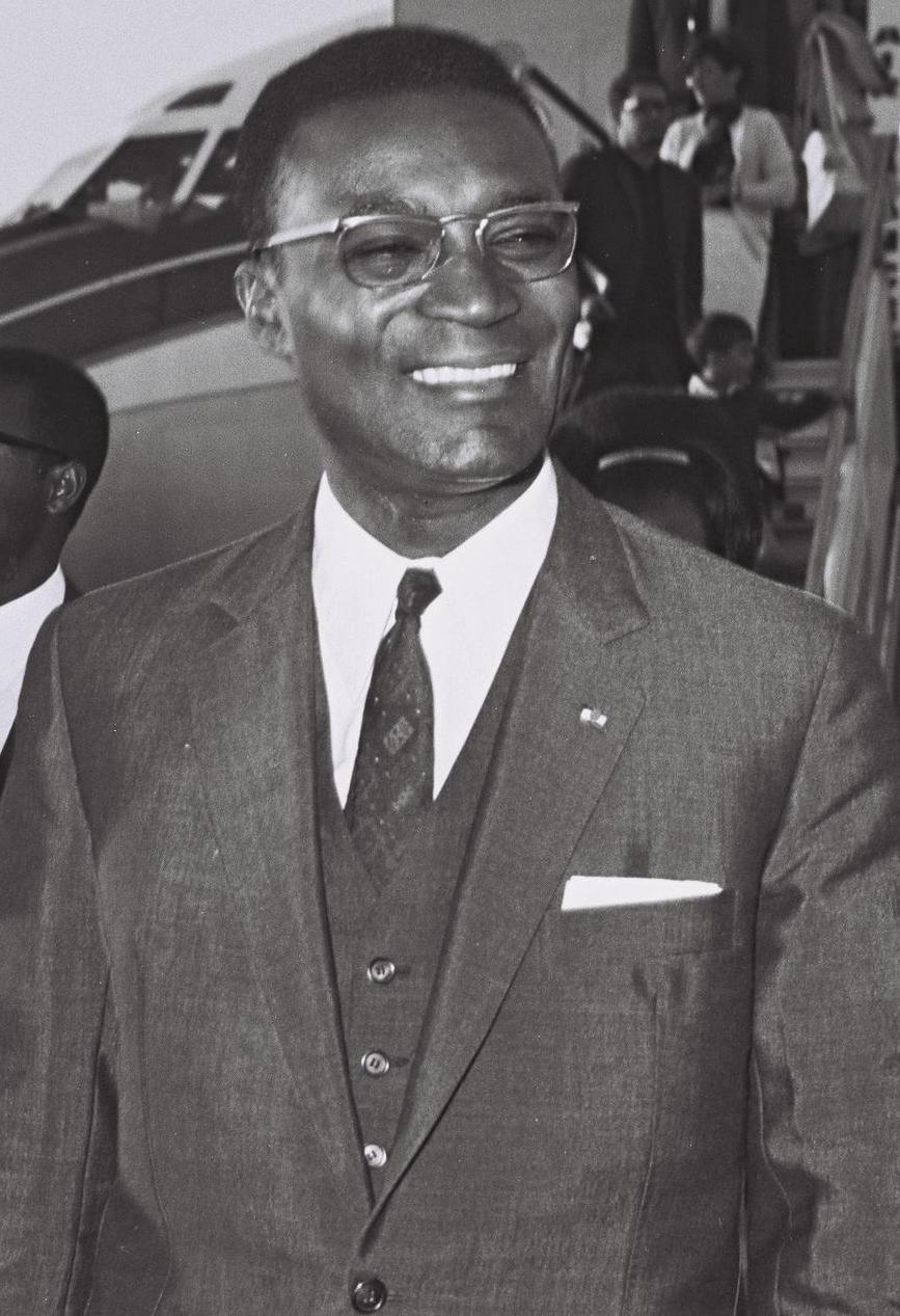 Pres. of Ivory Coast national assembly Philippe Yace (2nd r) arriving at Lod airport for the inauguration ceremony of the new Knesset building in Jerusalem.